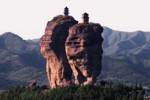 Shuang ta mountain in Chengde city.